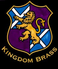 Kingdom Brass Logo